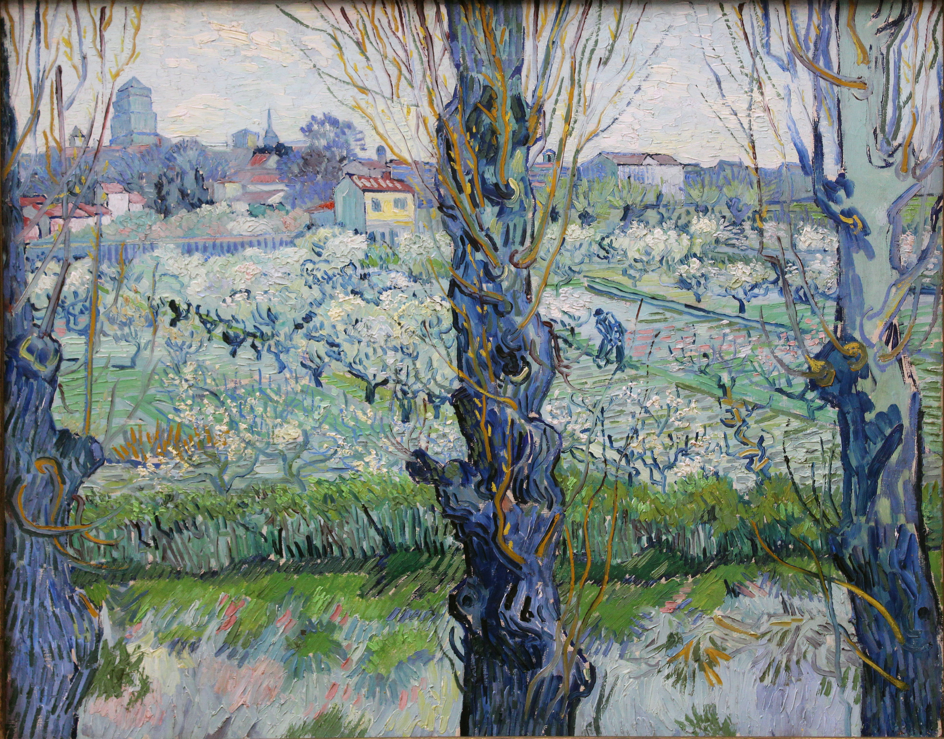 Flowering Orchards (Van Gogh series)